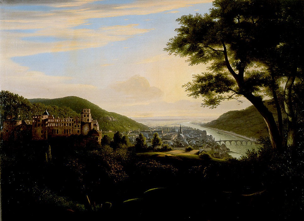 historic views of Heidelberg, Germany